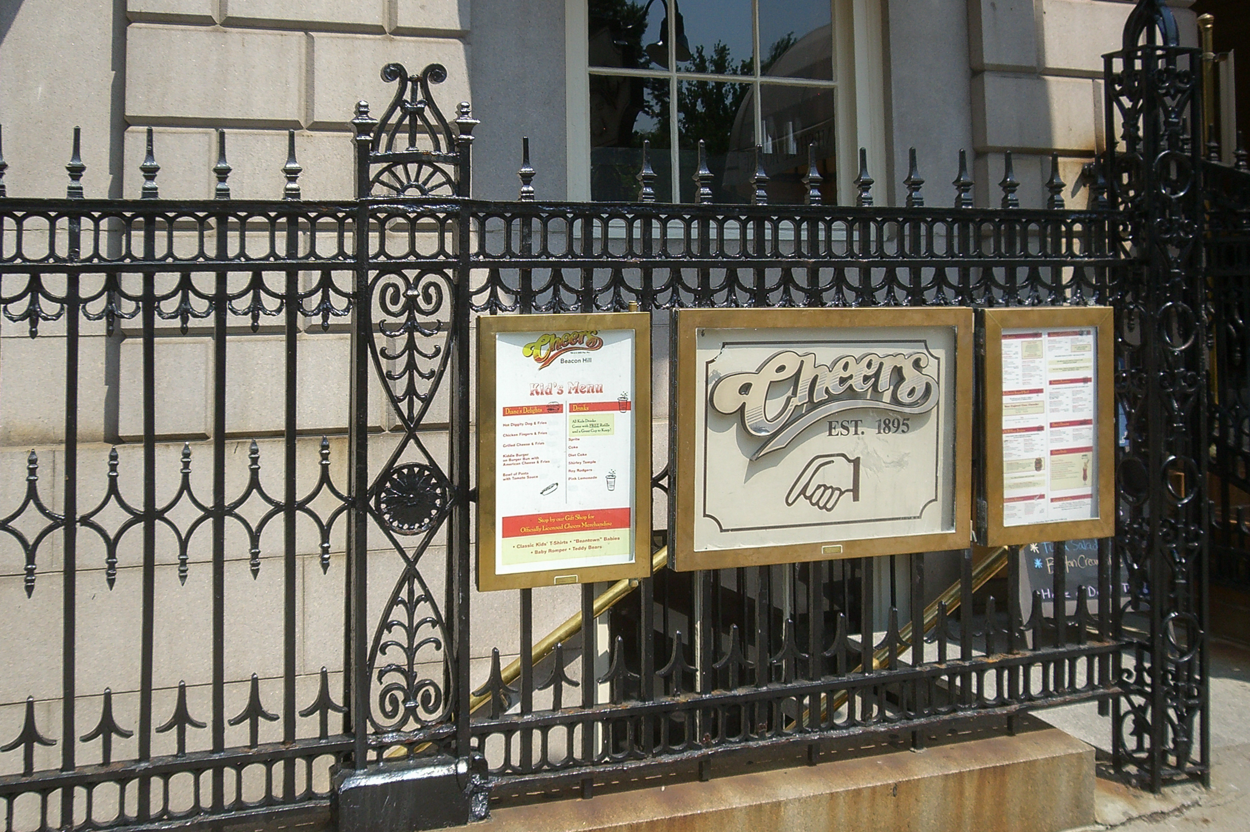 Boston, Massachusetts, USA